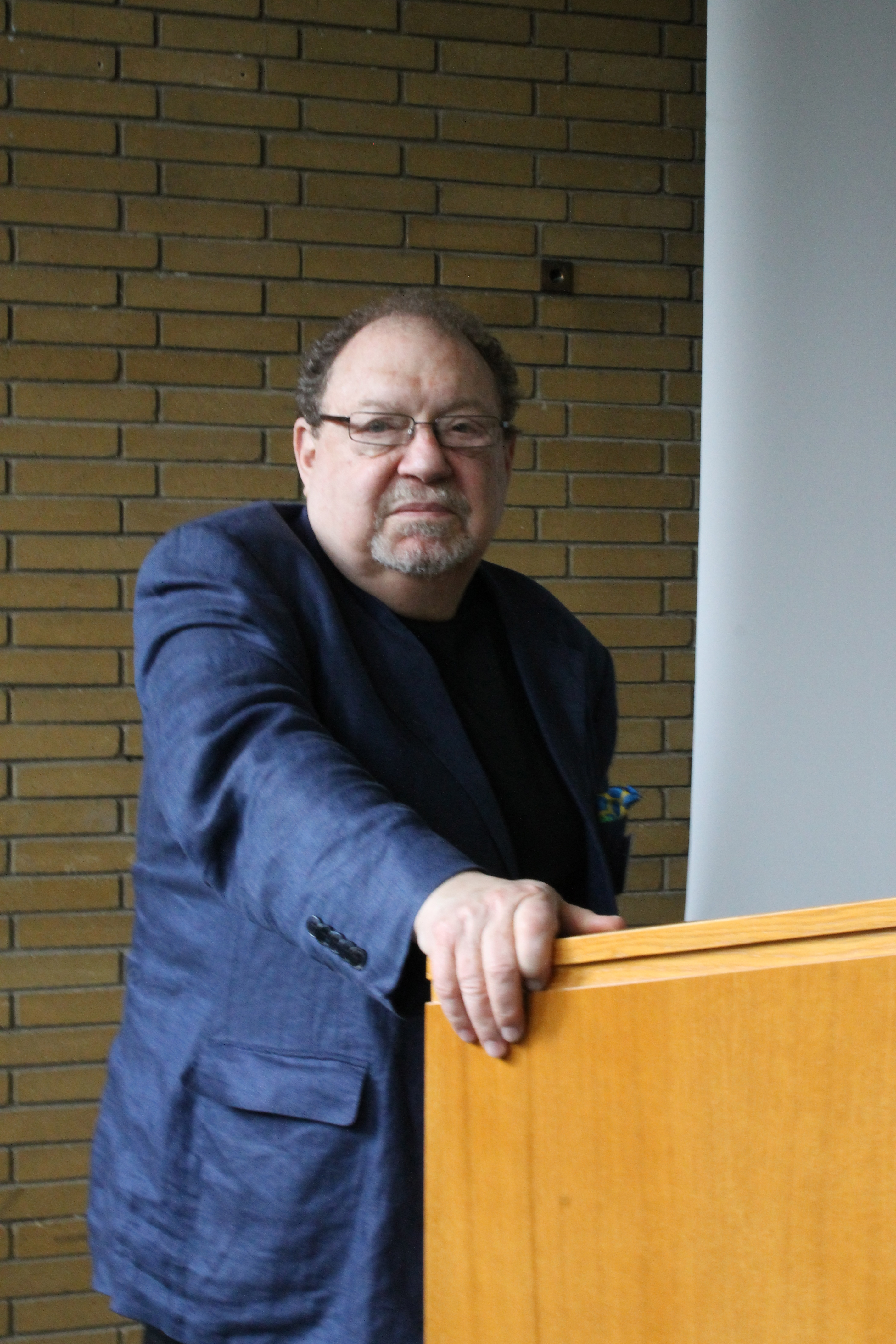 Journalist and food writer Paul Levy speaking at the Oxford Symposium on Food and Cookery, 2012.